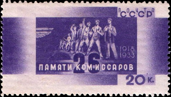 Stamps of the Soviet Union, 1933